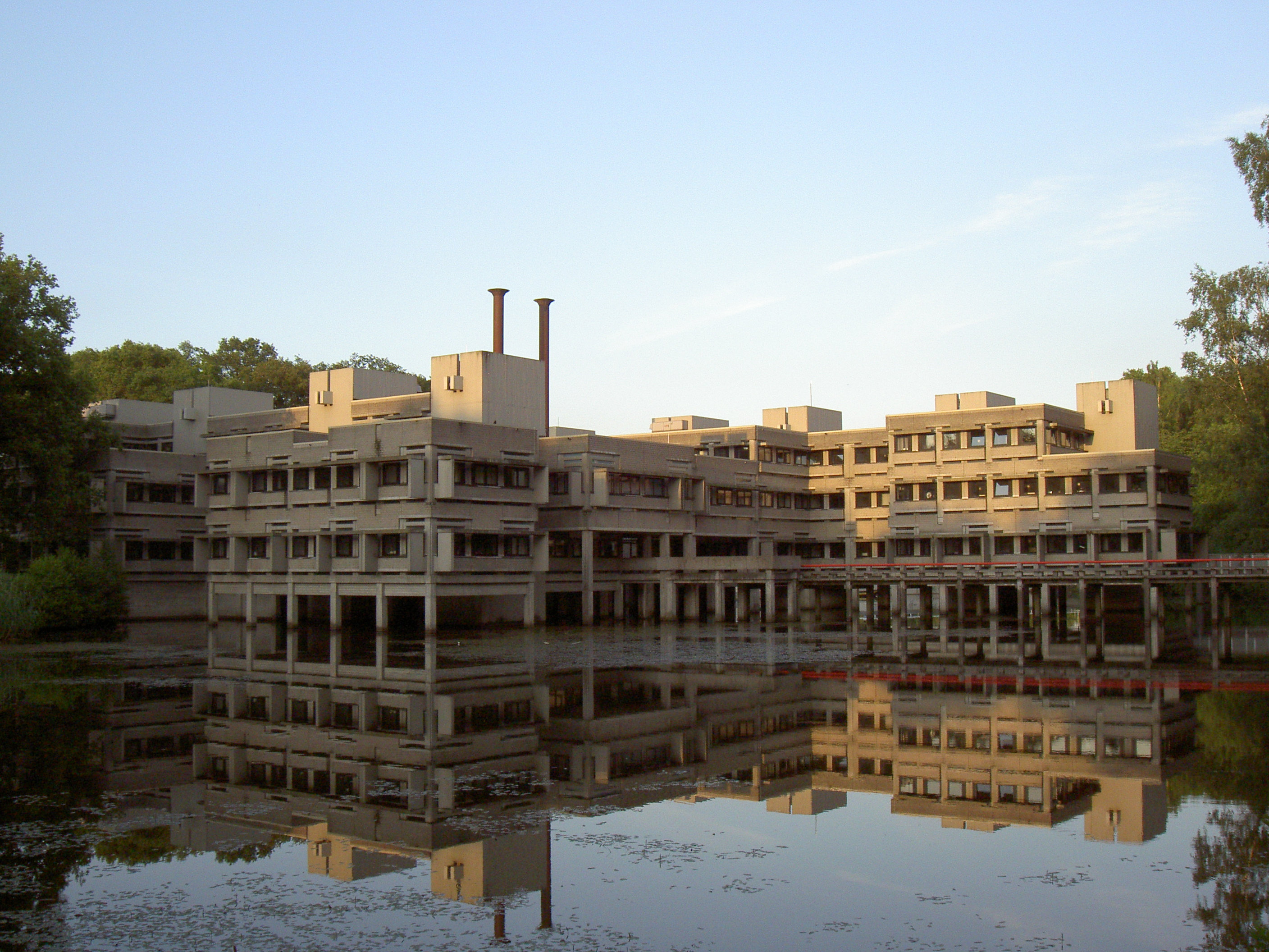 The Cubicus building of the University of Twente in the Evening.